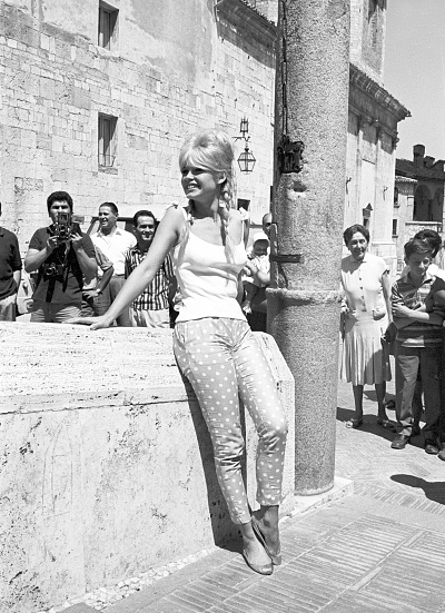 French actress Brigitte Bardot, in Italy for the film 'A Very Private Affair', posing for photographers and pedestrains on a low wall in Spoleto, Umbria.